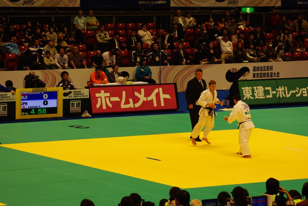 Drakšič (SLO) vs Egusa (JPN), 2008 Kano Cup Day 1